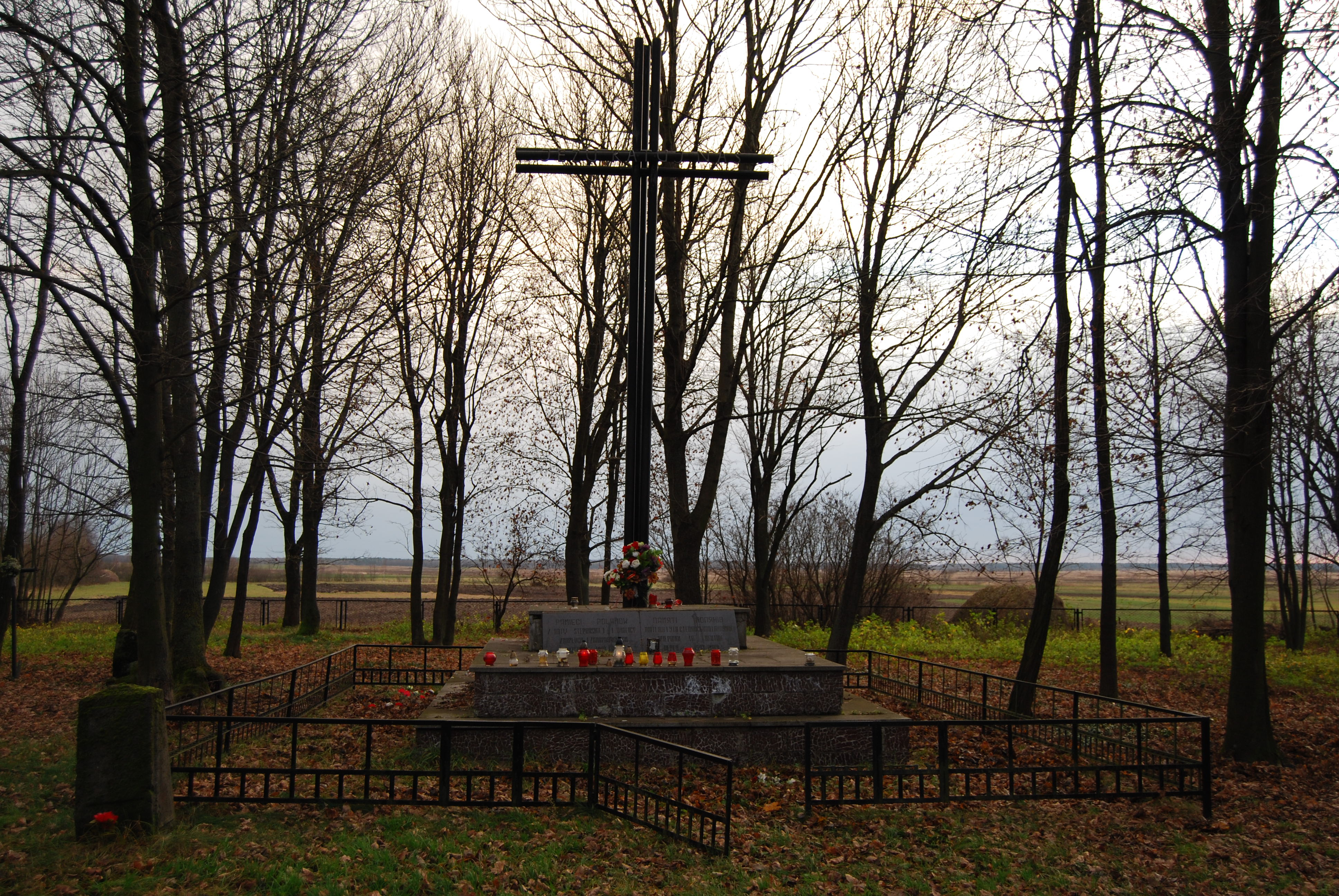 Memorial monument of murdered Poles in Huta Stepańska. Project of gen. Czesław Piotrowski.